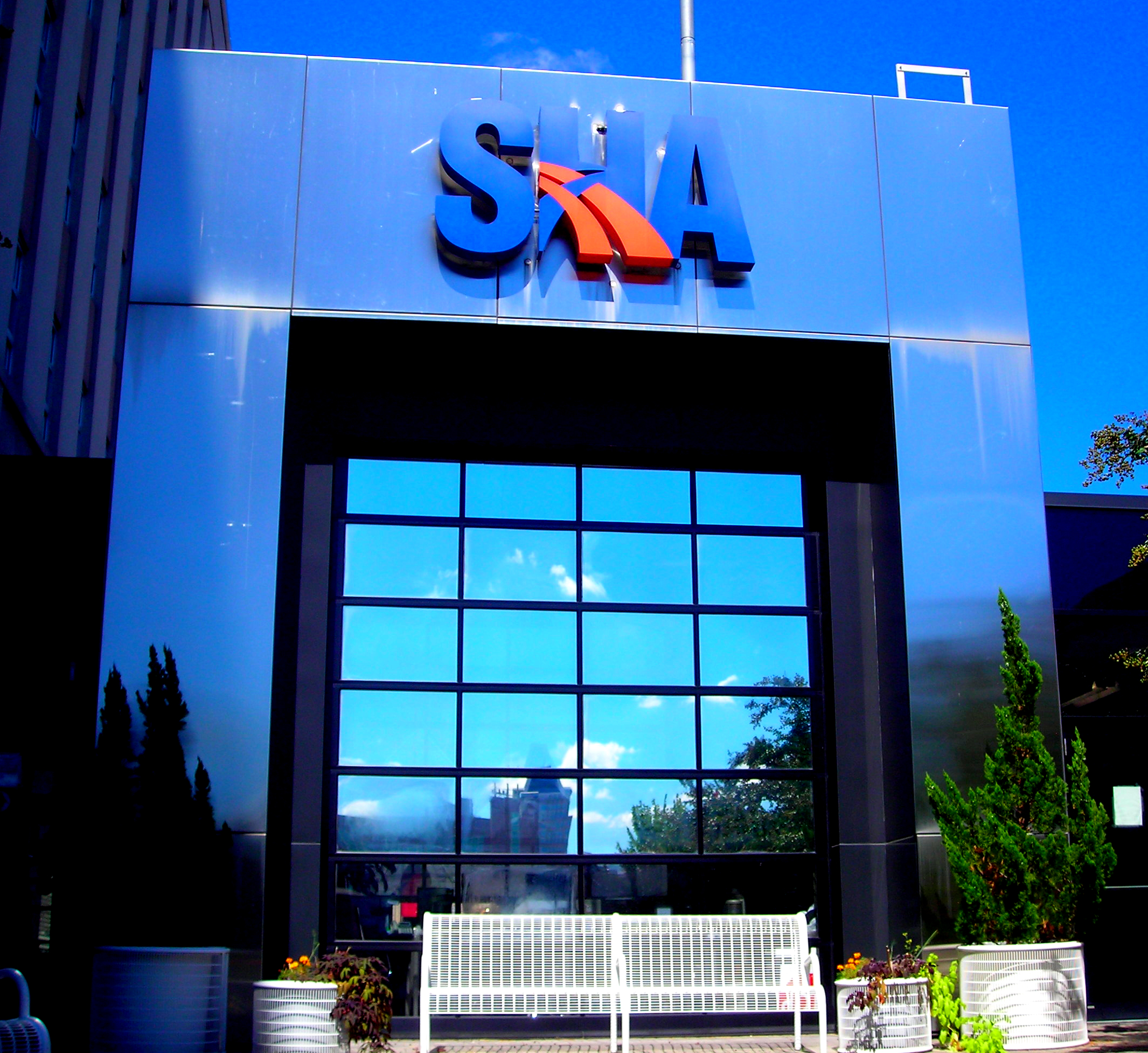 Maryland State Highway Administration; shiny box building viewed from Hunter & East Monument St (Baltimore).